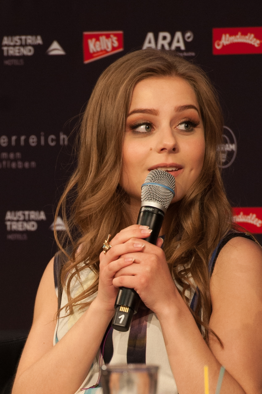 Eurovision Song Contest Vienna 2015: Maria Olafs